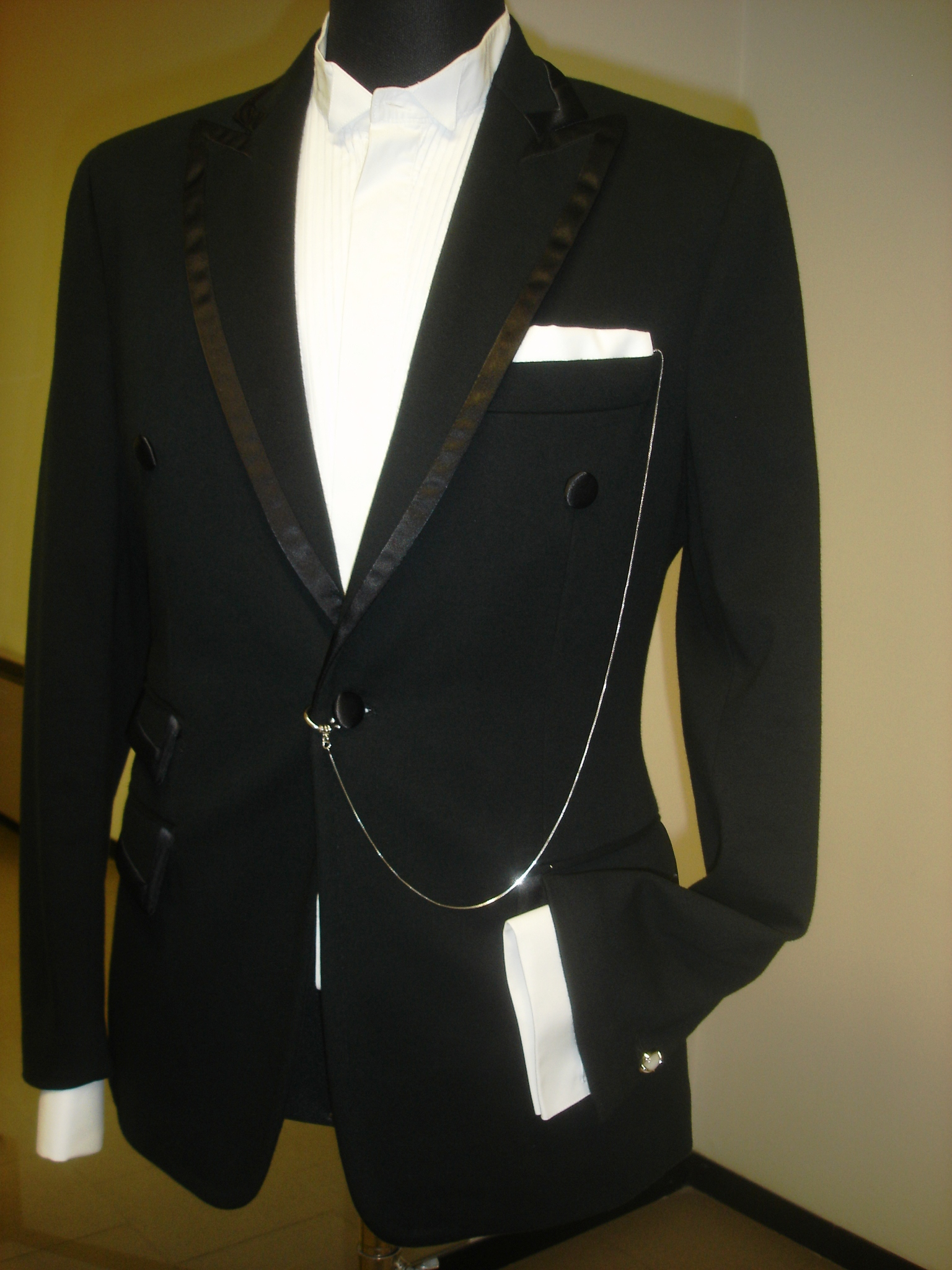 Poshfit is a handkerchief from taschino with chain jewel that is coupled all' buttonhole of the jacket